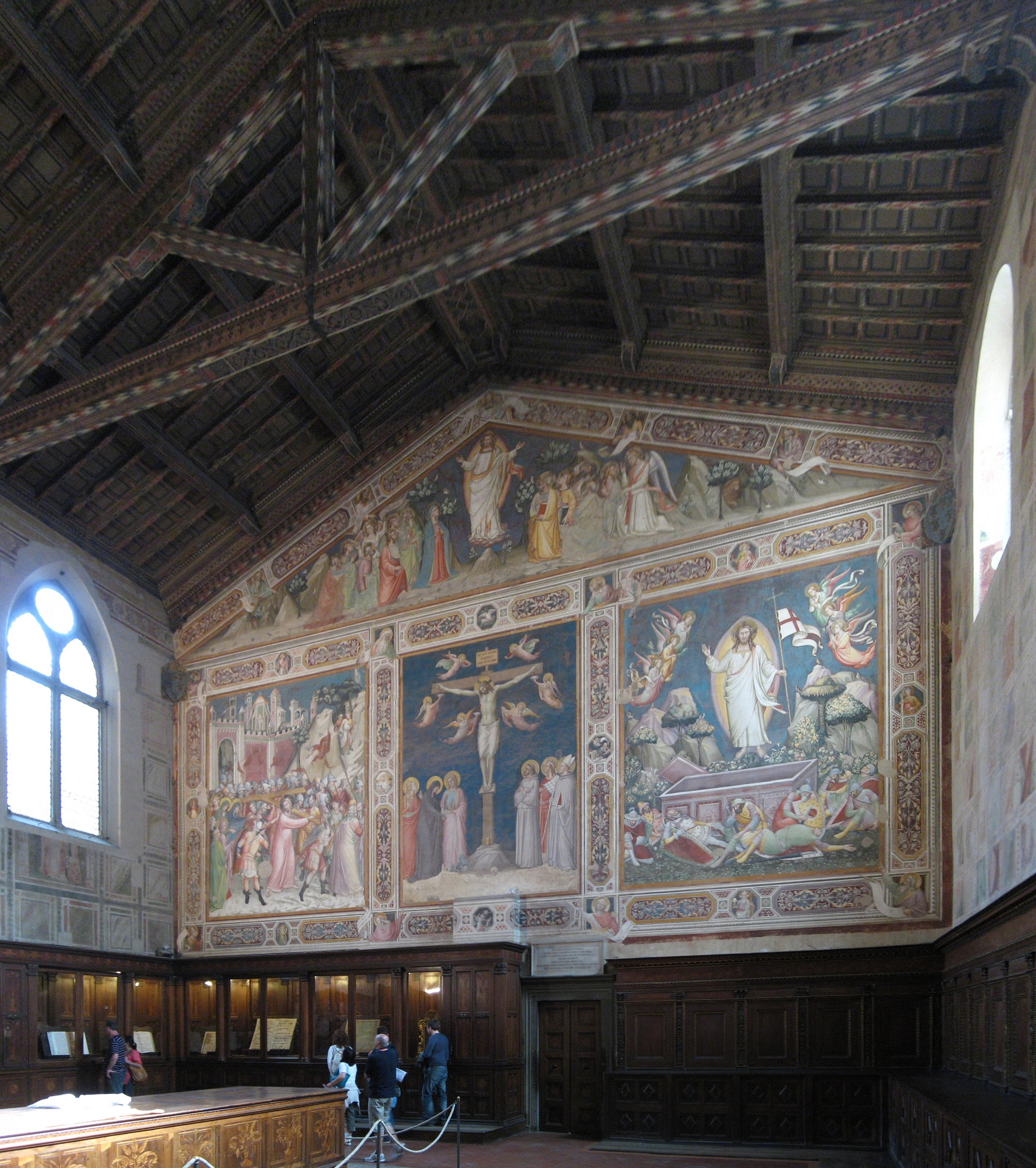 Sacristy of the Basilica of Santa Croce in Florence.